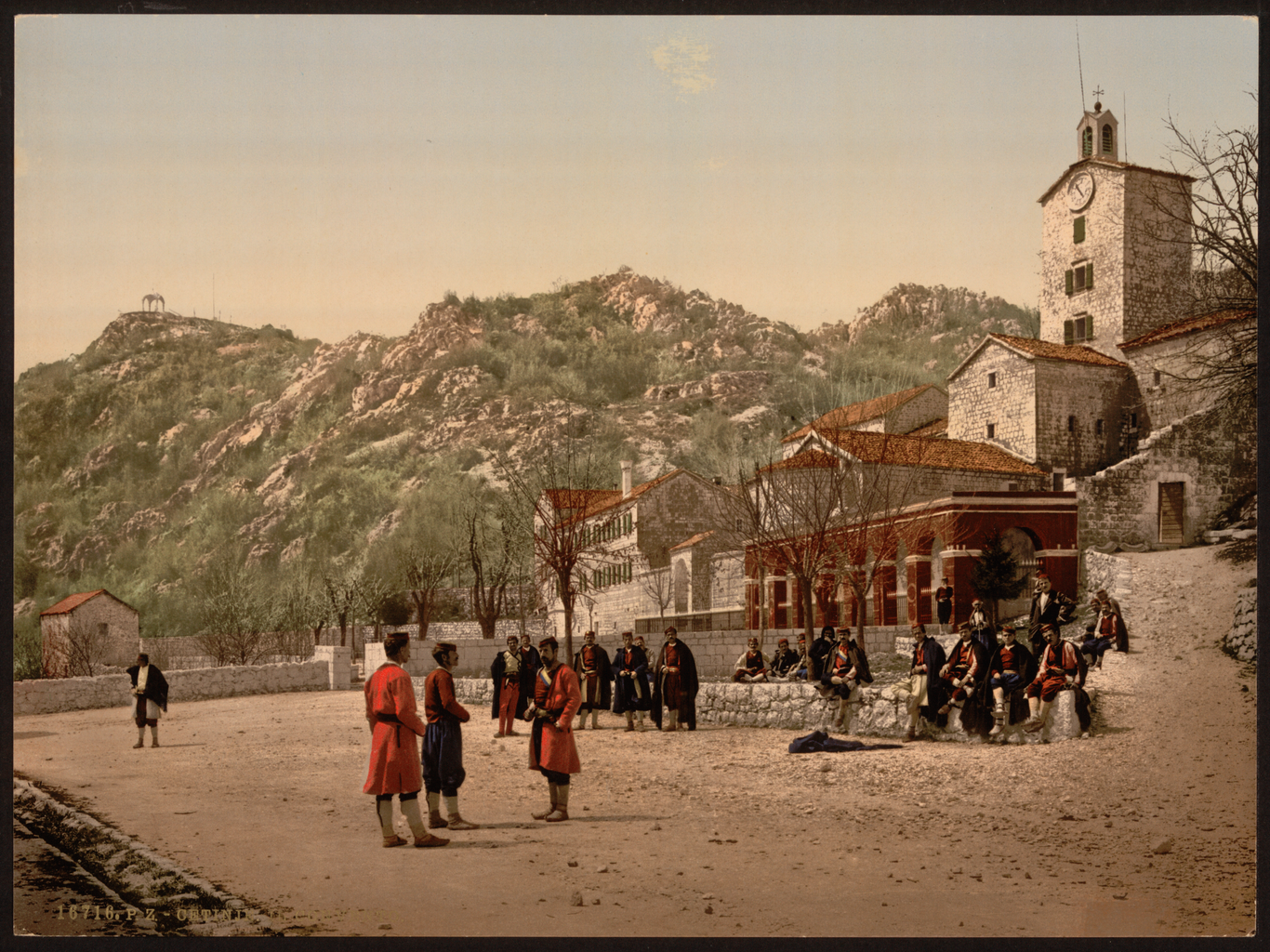 This late 19th-century photochrome print is part of “Views of Montenegro” from the catalog of the Detroit Publishing Company. It depicts the Cetinje Monastery at the foot of Mount Lovćen in Cetinje. The monastery was built in 1701 by Bishop–Prince Danilo (1670–1735), the founder of the Petrović Njegoš dynasty, following the destruction by Venetian forces of the medieval Cetinje Monastery, a Serb Orthodox monastery built by Ivan the Black in 1484. The monastery has great historical significance for the Montenegrin people. It contains the remains of Saint Peter of Cetinje (1747–1830) and other religious relics and is the burial site of several members of the Petrović Njegoš dynasty, including Duke Mirko (1820–67), the father of King Nikola I (1841–1922). At the time the photograph was taken, Cetinje was the capital of Montenegro, an independent principality that separated from the Ottoman Empire in 1878. The people in the foreground are ordinary Montenegrins, dressed in national costumes worn on Sundays and special occasions. The Detroit Photographic Company was launched as a photographic publishing firm in the late 1890s by Detroit businessman and publisher William A. Livingstone, Jr., and photographer and photo-publisher Edwin H. Husher. They obtained the exclusive rights to use the Swiss "Photochrom" process to convert black-and-white photographs into color images and to print them by means of photolithography. This innovative process was successfully applied to the mass production of color postcards, prints, and albums for sale to the American market. The firm became the Detroit Publishing Company in 1905. Monasteries; Orthodox churches; Srpska pravoslavna crkva